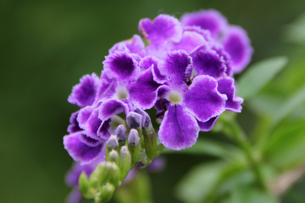 golden dewdrop, pigeon berry, skyflower